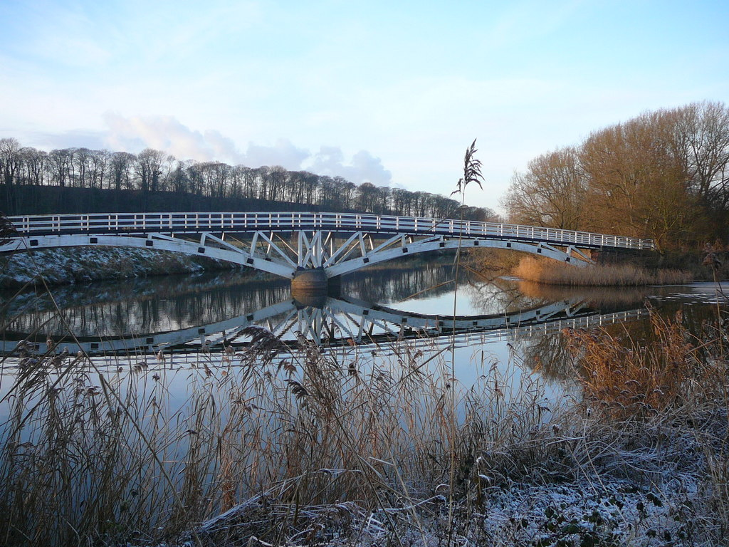 Footbridge on the River Weaver southwest of Dutton Lock